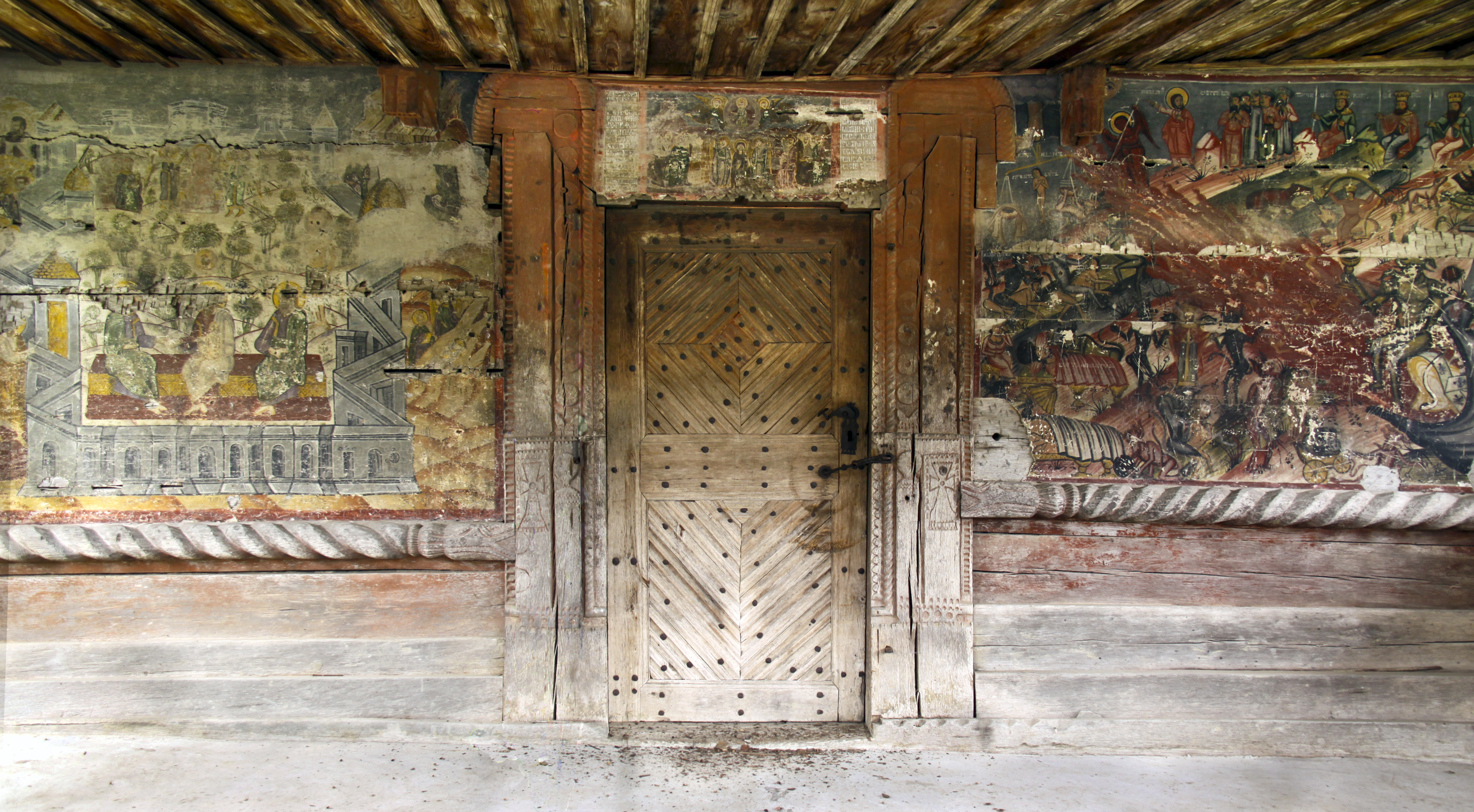 Jupâneşti, Argeş county, Romania: the wooden church, entrance.